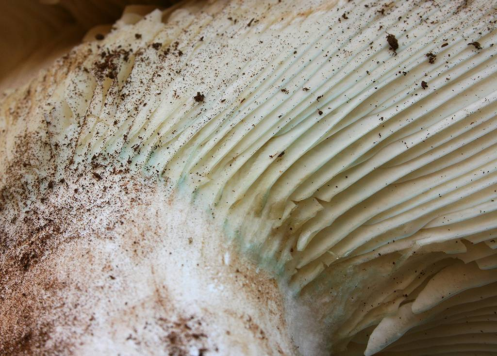 Closeup of the mushroom Russula brevipes, showing the greenish band sometimes found on the apex of the stipe.